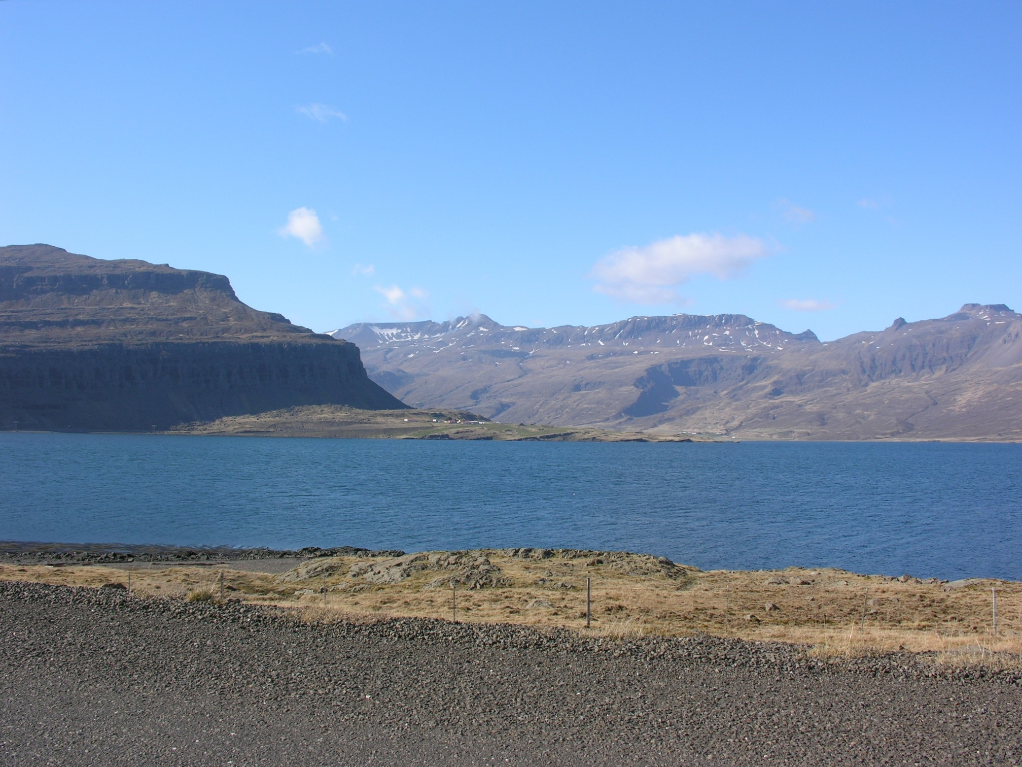 Iceland , views along road Road 1 in Iceland (Hringvegur). Picture is geocoded manually; if someone can contribute to the accuracy, please do so.